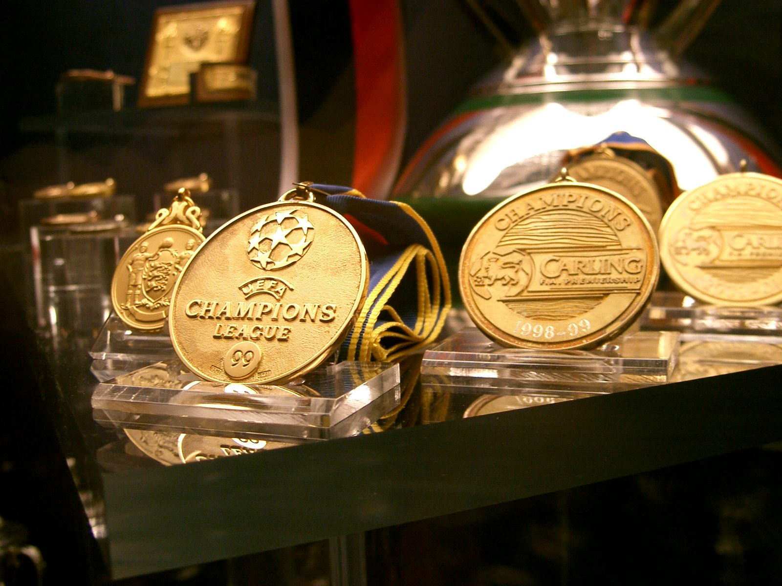 The Champions League Winners' Medal (Manchester United Museum)